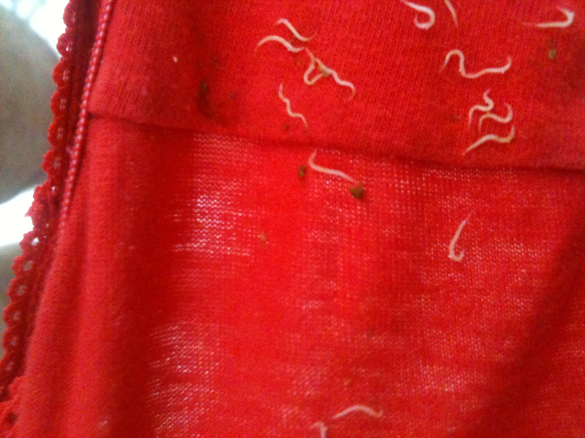 Oxyurus Vermicularis worms